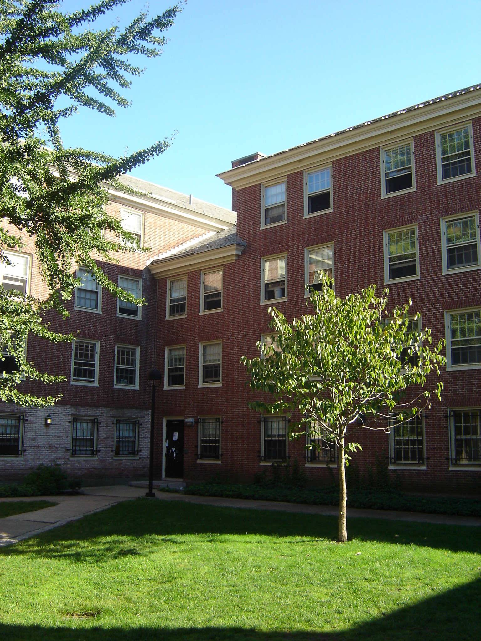 Building Name: Everett House Location: Brown University, 11 Benevolent Street, Providence, RI, USA Architect: Thomas Mott Shaw Constructed: 1955-1957 Namesake: Walter Goodnow Everett, professor of Latin, philosophy, and natural theology at Brown University from 1890 to 1930 Description: Everett House, part of Keeney Quadrangle, is a residence hall at Brown University.